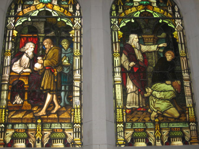 Depiction of the Parable of the Unmerciful Servant. Photograph of stained glass window at Scots' Church, Melbourne